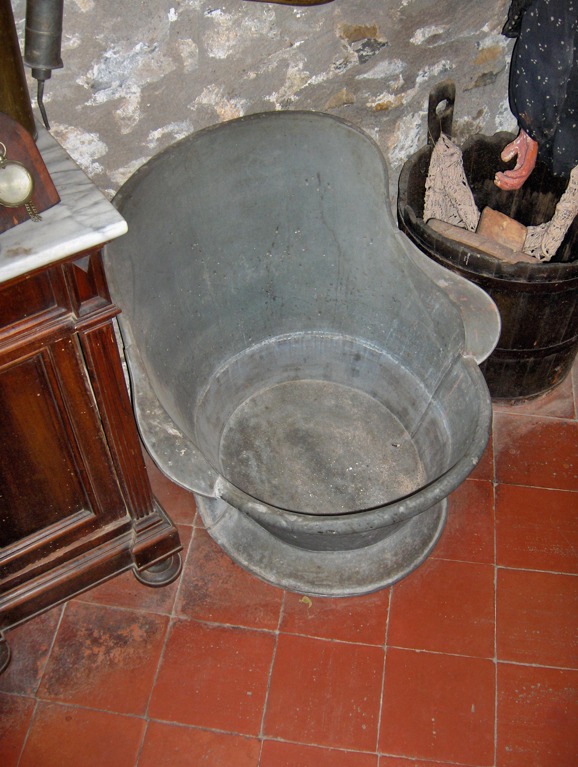 Bathtub; Ethnographic Museum of Western Liguria, Cervo, Flower Riviera, Italy